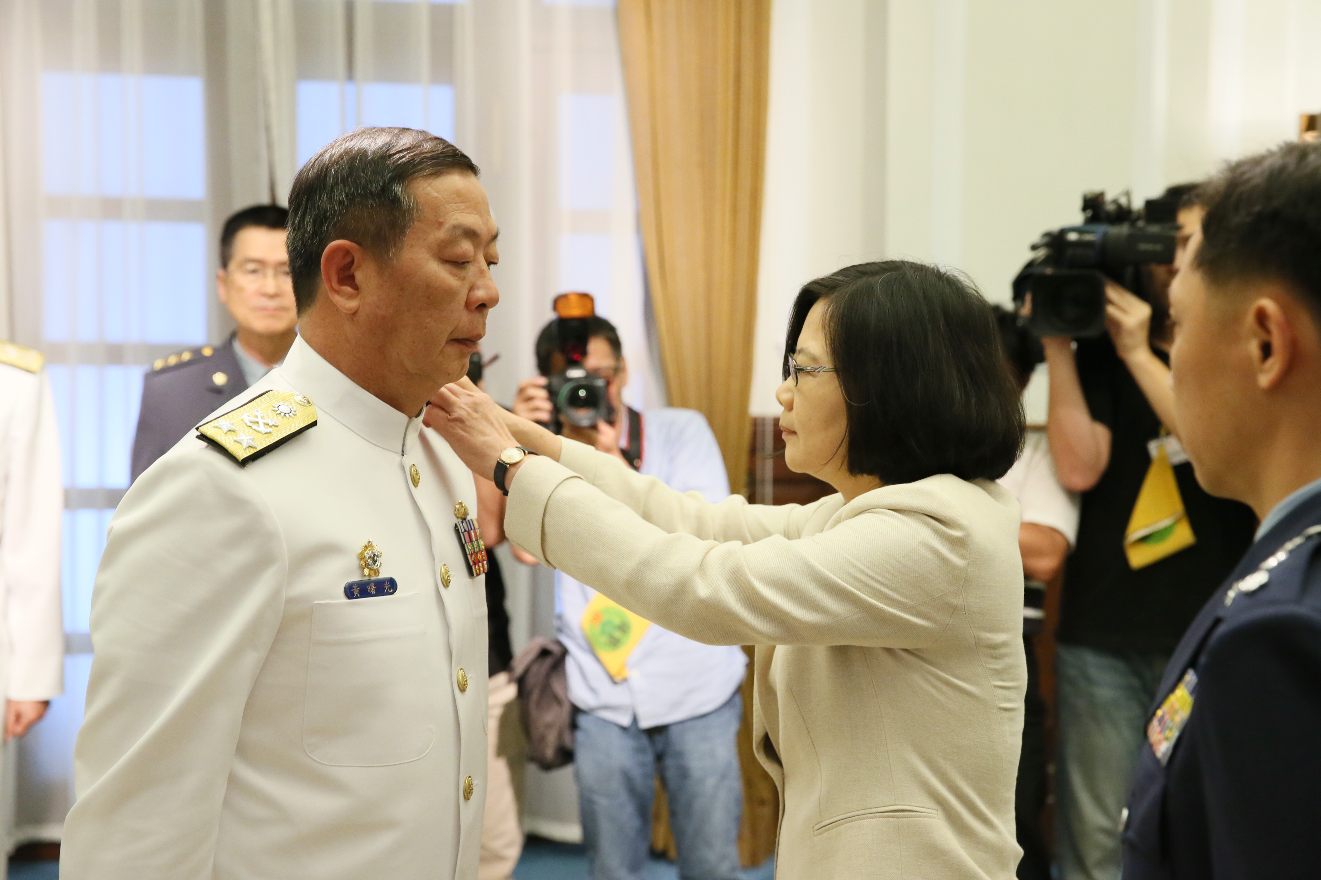 President Tsai presides over a rank conferral ceremony for Navy Commander Huang Shukuang and other high military officers.